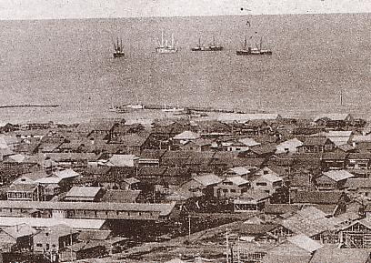 View of Shirutoru(Makarov Макаров)